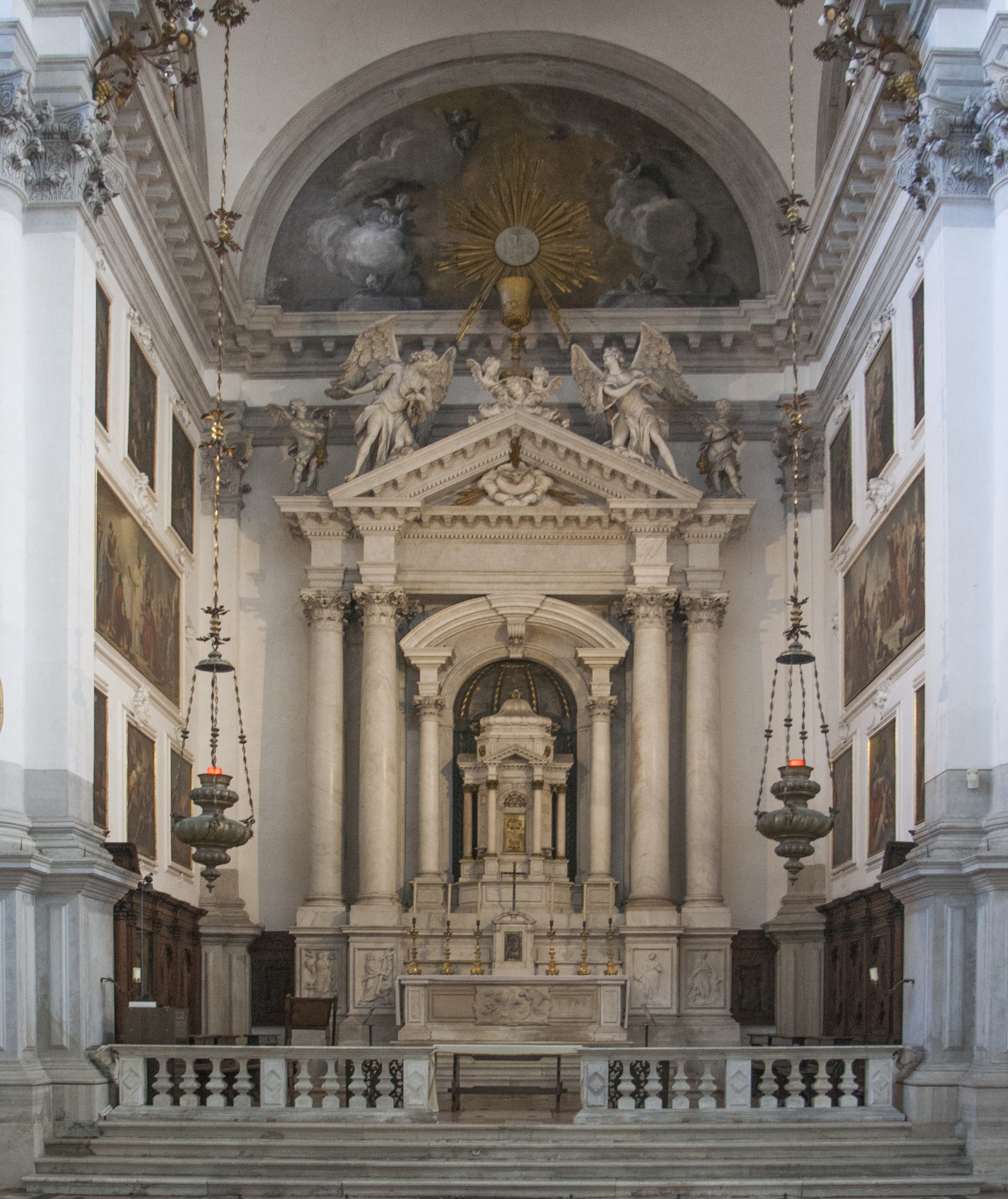 Chancel and high altar of the San Stae church in Venice